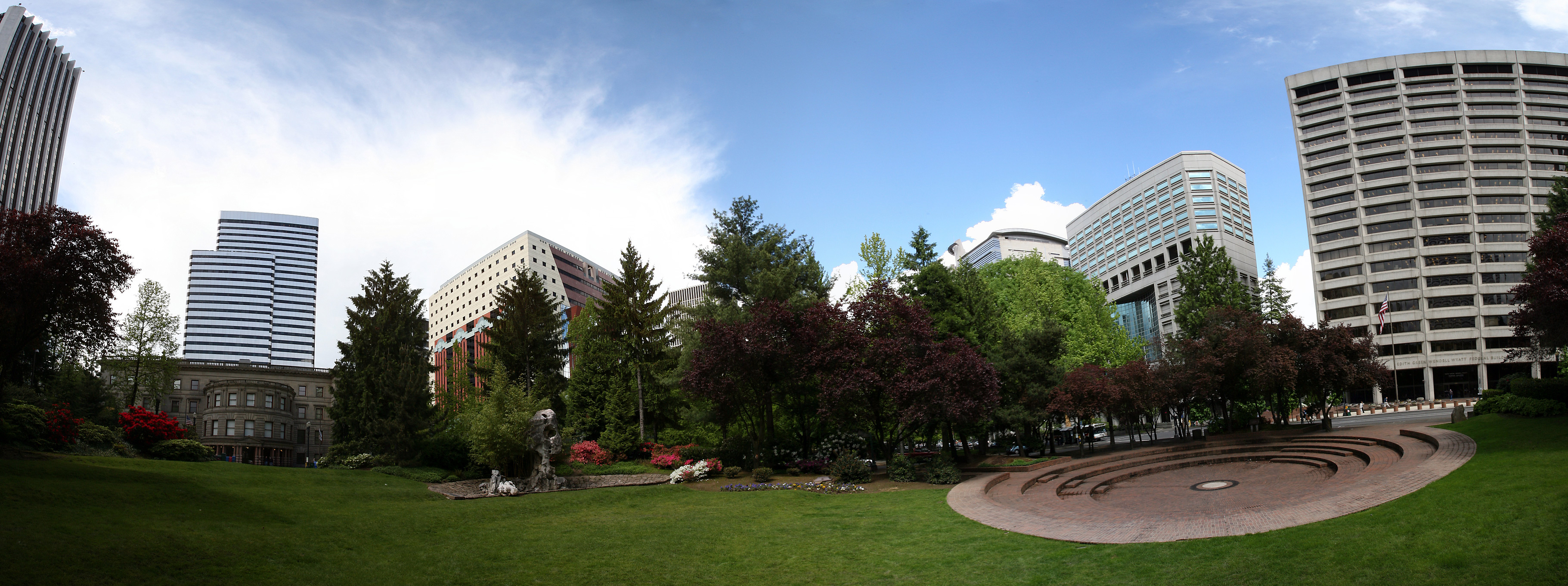 A panoramic photograph of Terry Schrunk Plaza in Portland, Oregon.